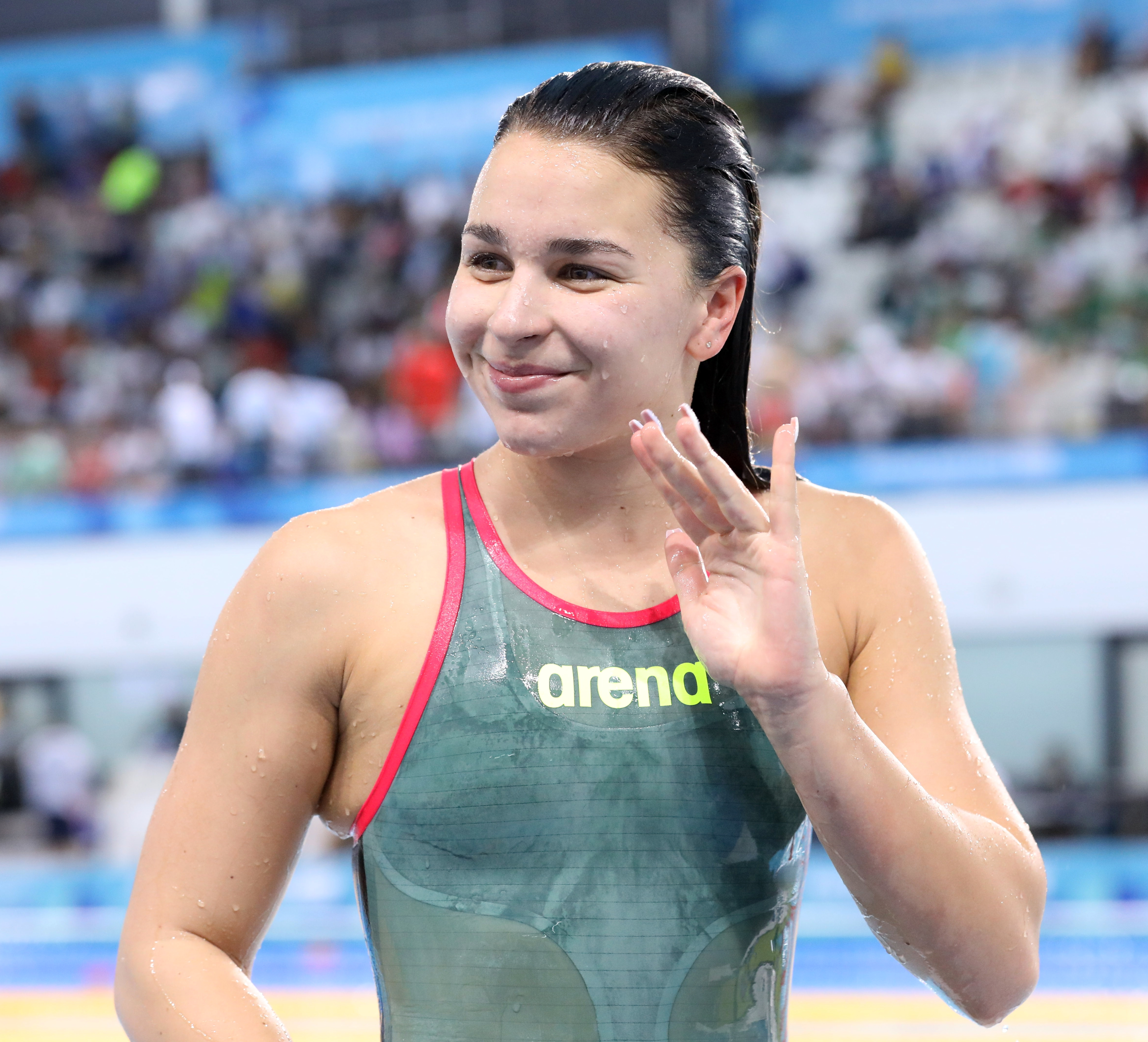 Girls' Swimming, 200 m Freestyle Final at the 2018 Summer Youth Olympics in Buenos Aires at the 10th October 2018: Ajna Késely